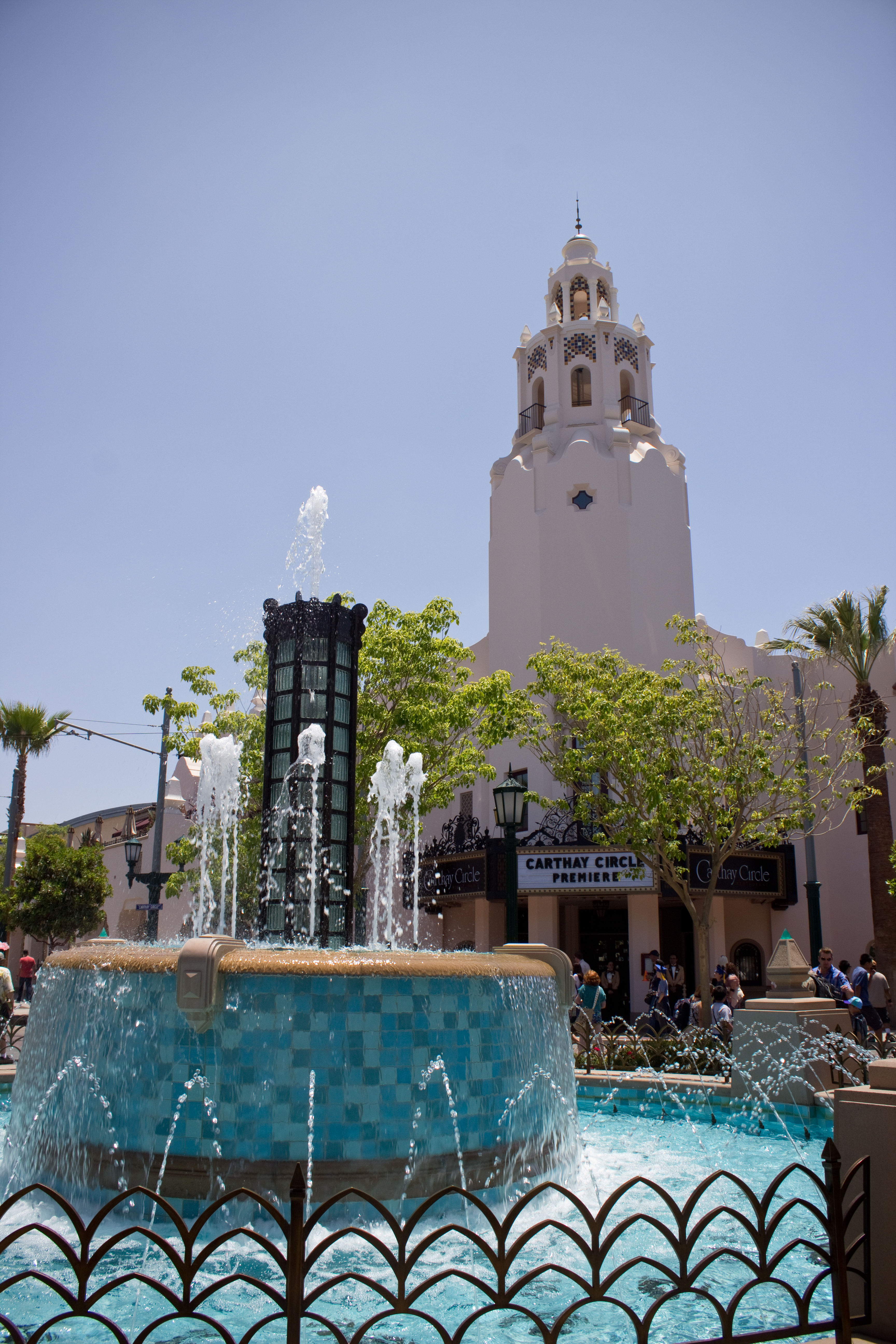 The gorgeous Carthay Circle Restaurant and fountain on the brand new and absolutely beautiful Buena Vista Street at Disney California Adventure.